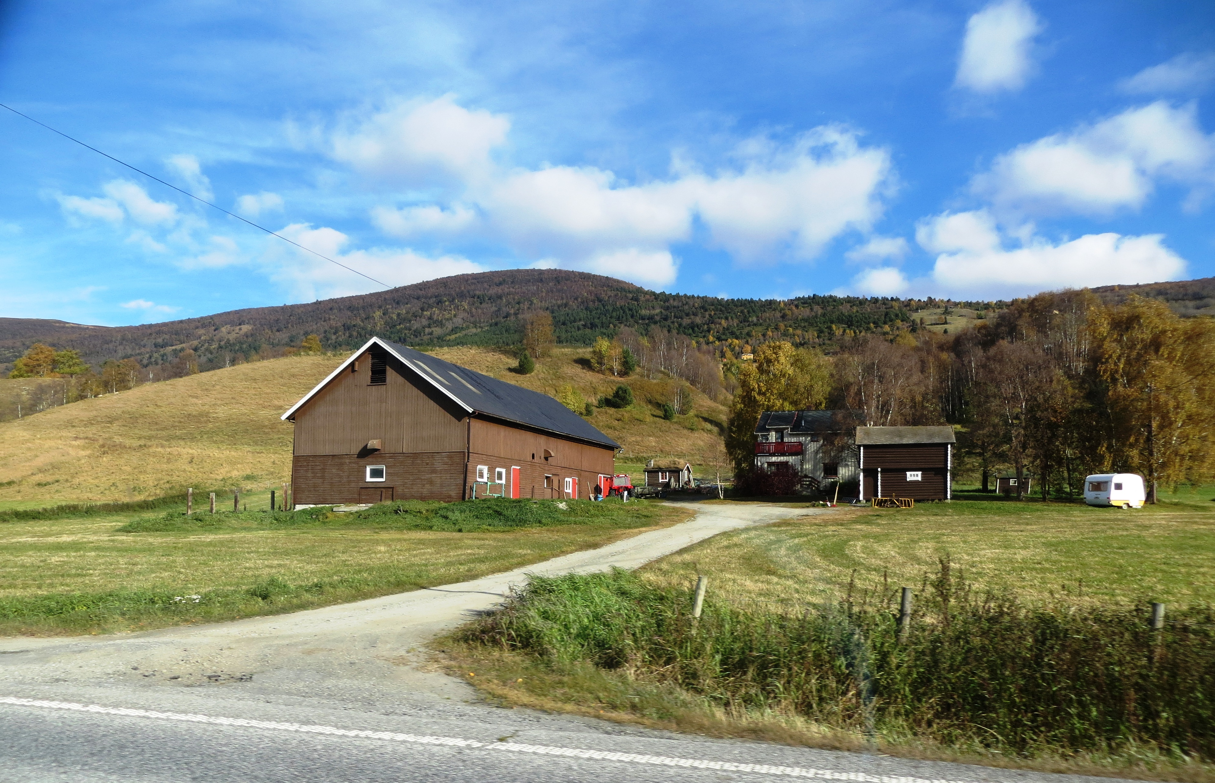 Image from along E6 in the municipality of Dovre, Oppland county, Norway